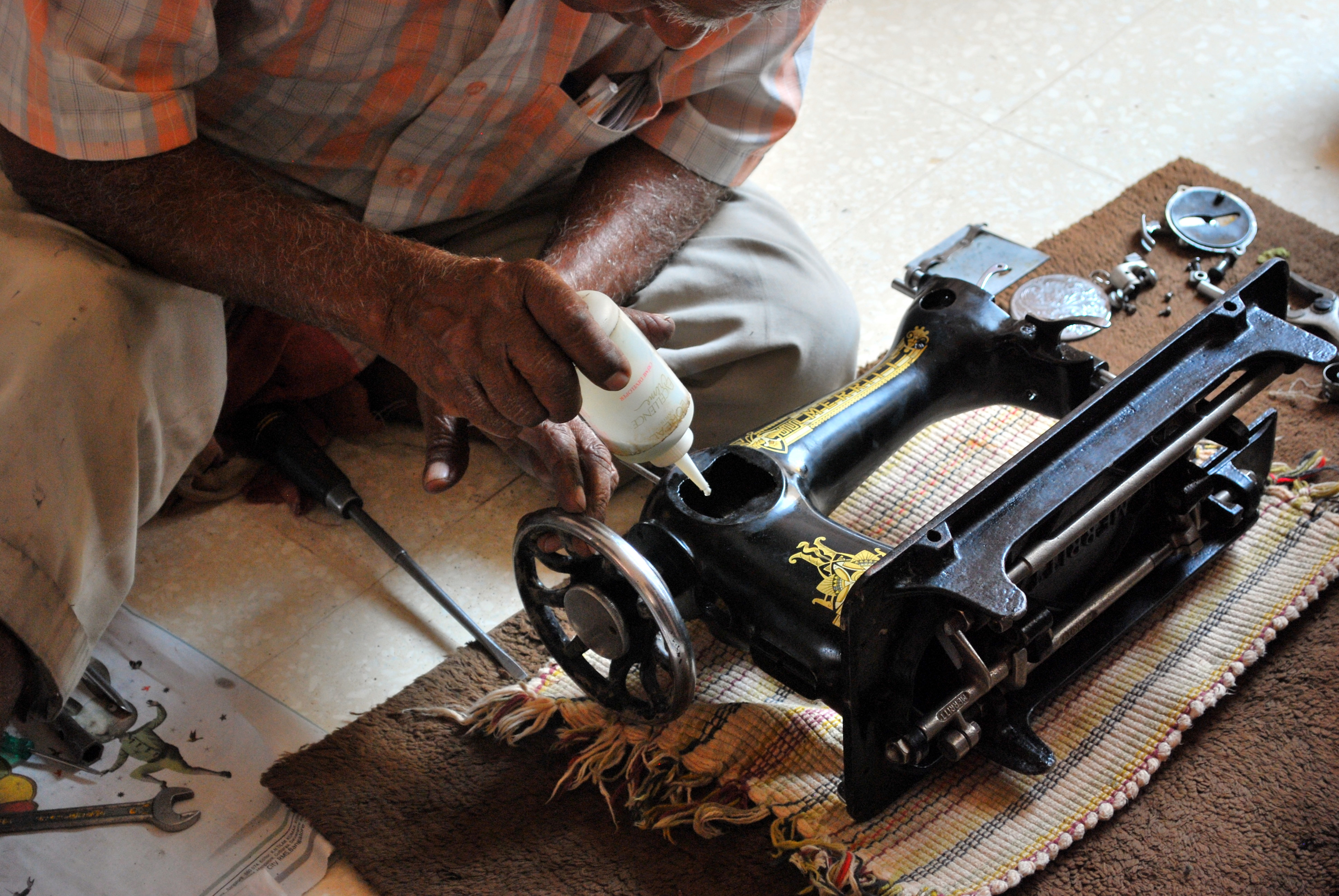 My dad managed to locate this old man to get our sewing machine repaired/serviced as it was not working as intended. The man you see in the picture is 85 years old, and he was a school teacher for the better part of it. Make no mistake, he knows everything there is to know about sewing machines. He patiently disassembled the entire sewing machine into its basic components, cleaned each and every one of them, all the while explaining to my dad their functions and roles, and assembled the whole sewing machine again. All this took around 4 hours. I can only hope to be as intelligent and as active as he is when I'm 85 years old.